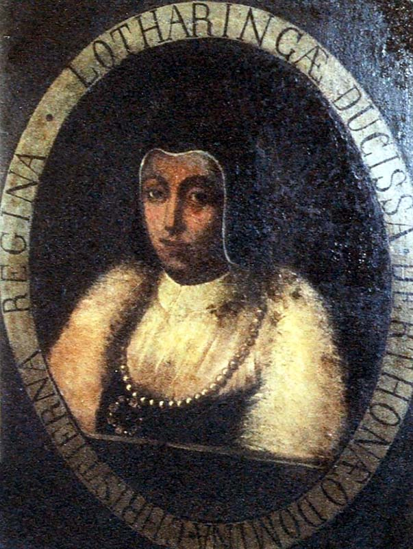 Christina of Lorraine, formerly of Milan, originally of Denmark, Norway and Sweden